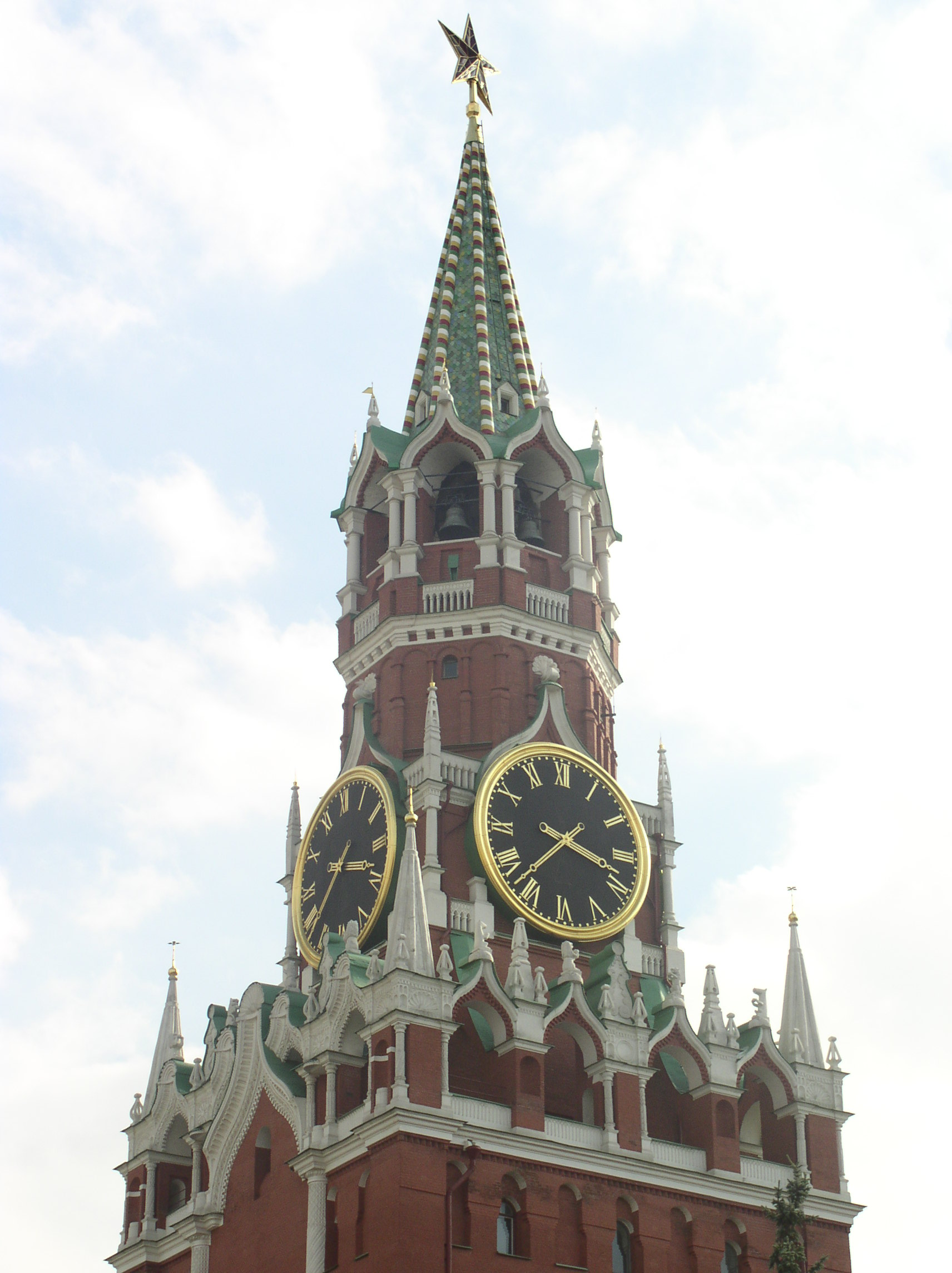 Saviour tower of Moscow Kremlin. Moscow, Russia.